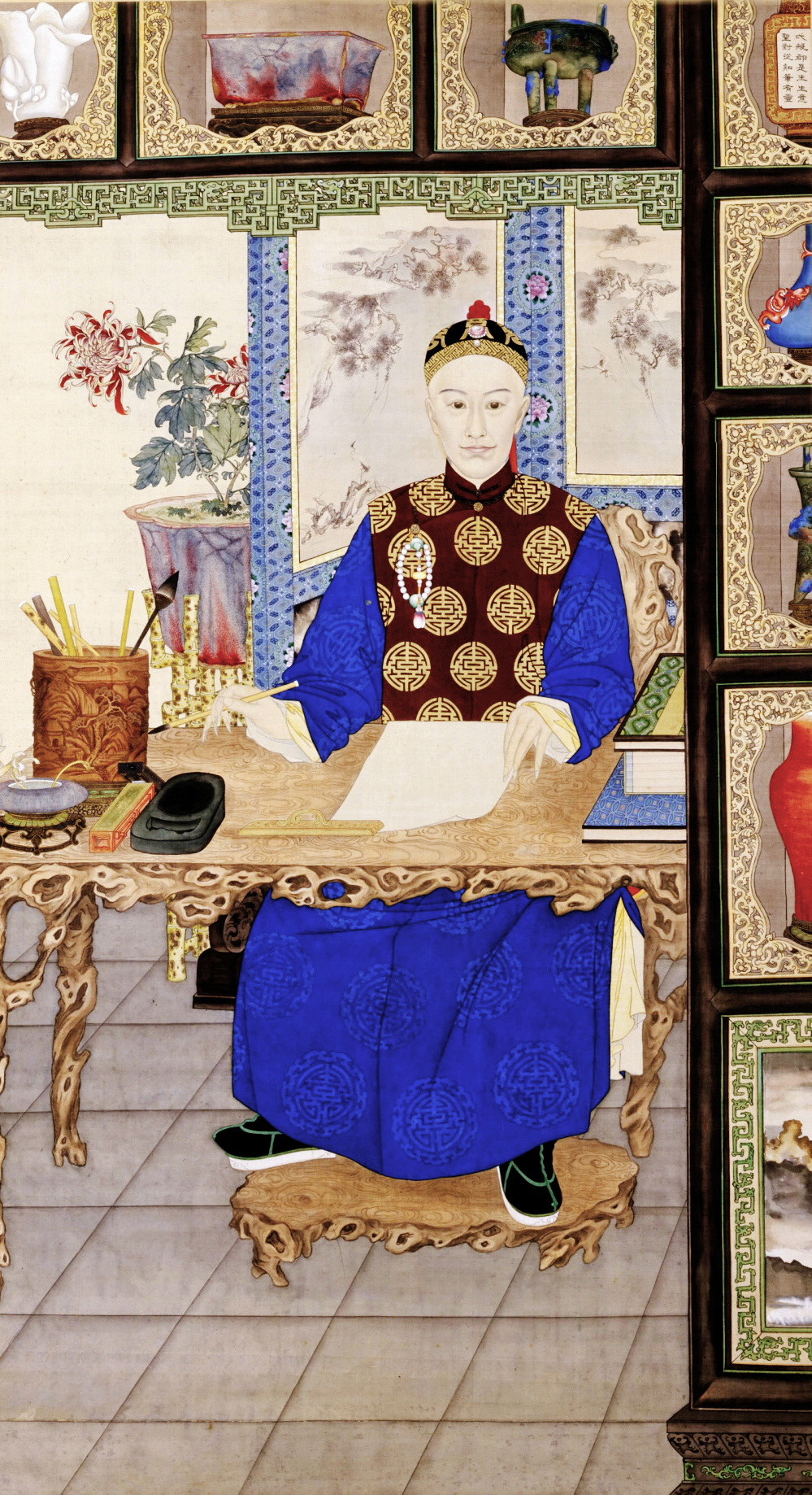 Portrait of the Guangxu Emperor in his study.